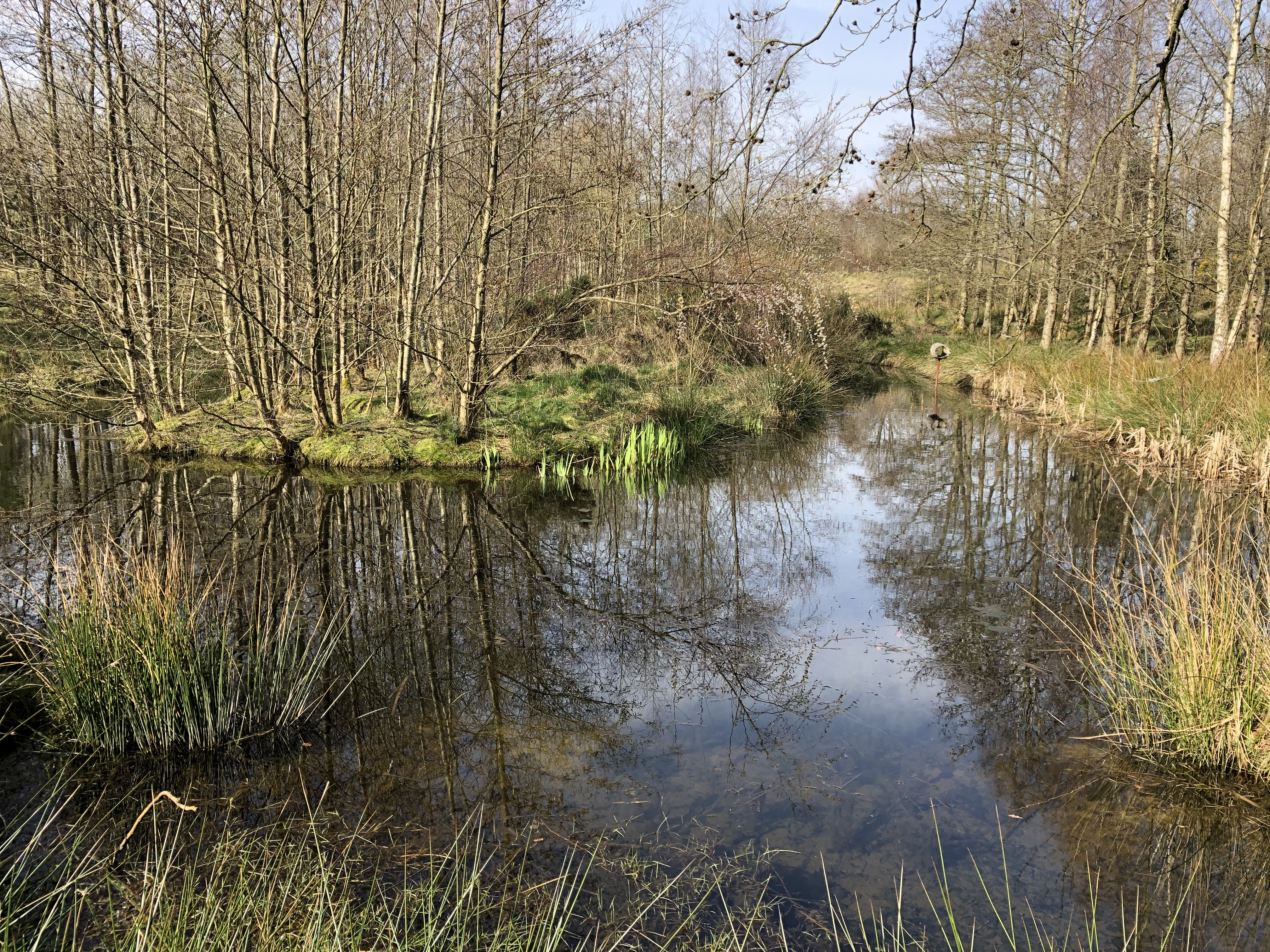 Pond in Humphreystown woods, ash, alder and oak mixed woodland.